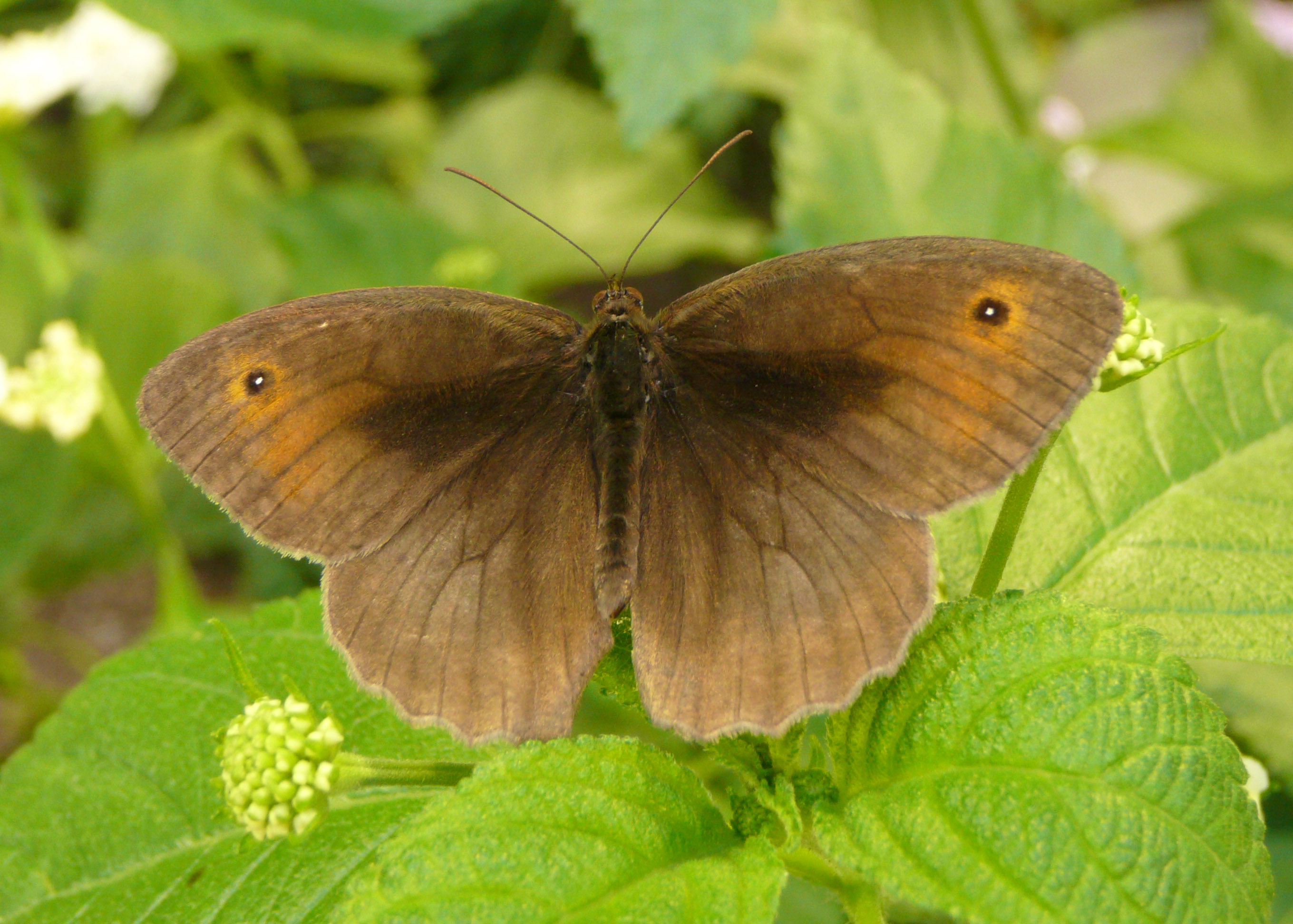 Butterfly Meadow Brown (Maniola jurtina)